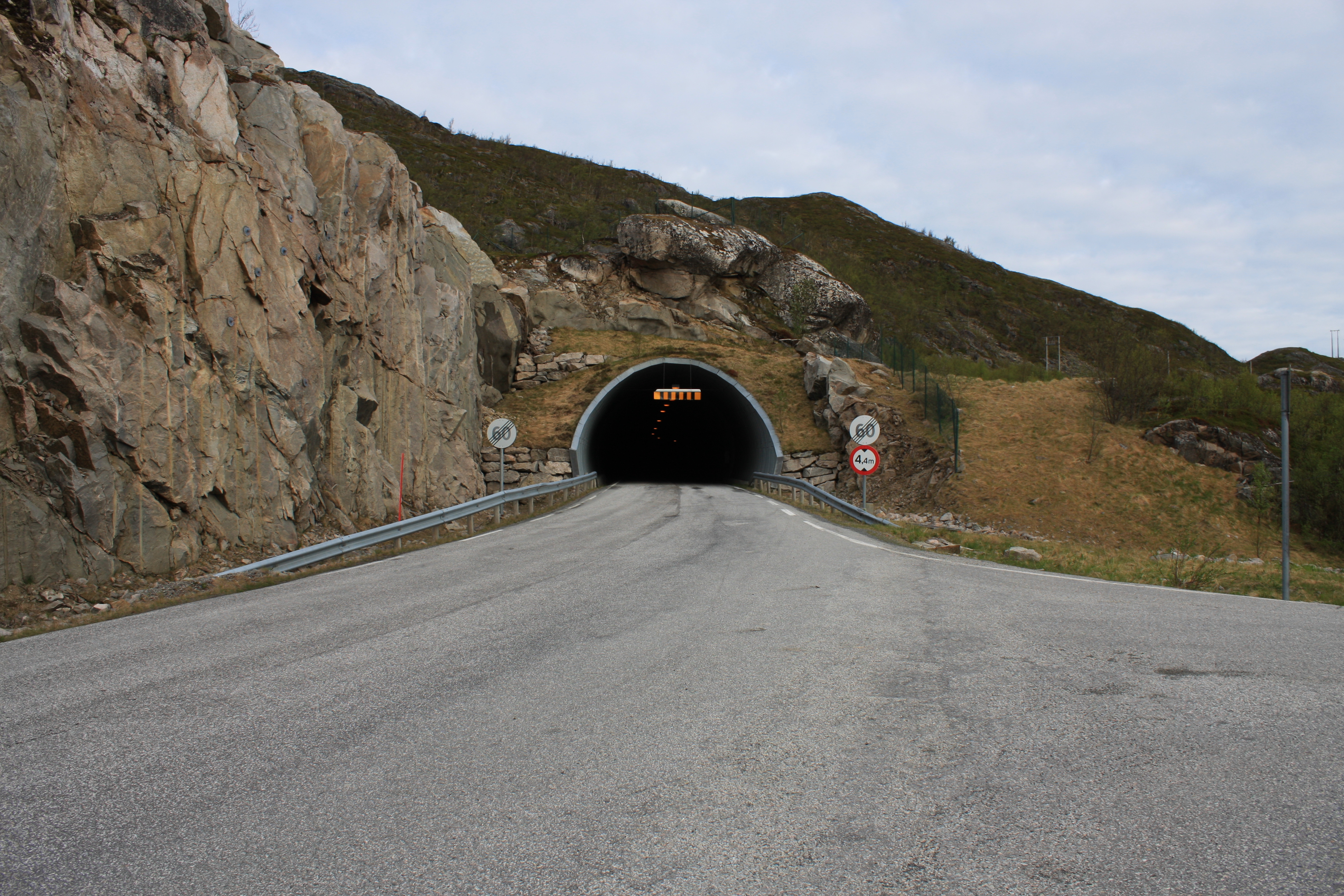 The east entrance to the road tunnel Oterviktunnelen on riksvei 862 (Norwegian national road 862), Norway.